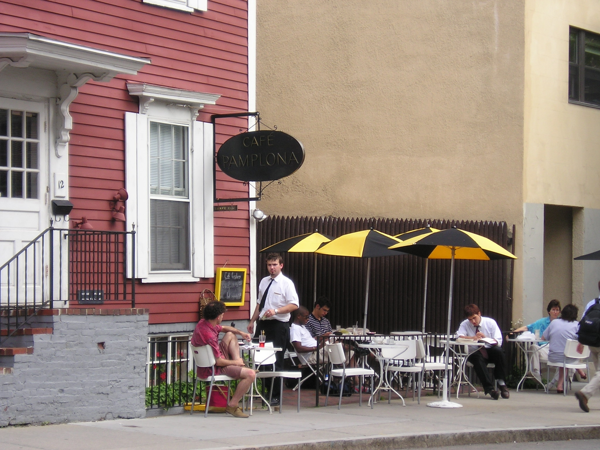 Cafe Pamplon in Cambridge, Massachusetts